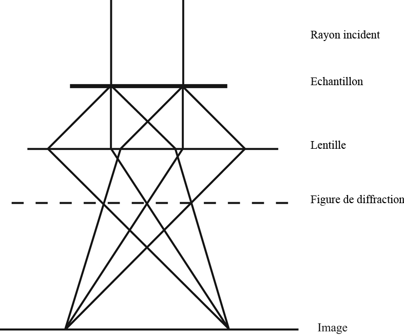 french version of Image:Simple-TEM-beam-path.jpg